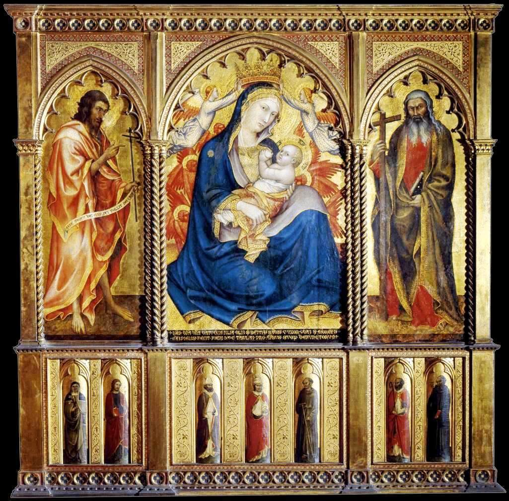 Virgin and Child with Saints